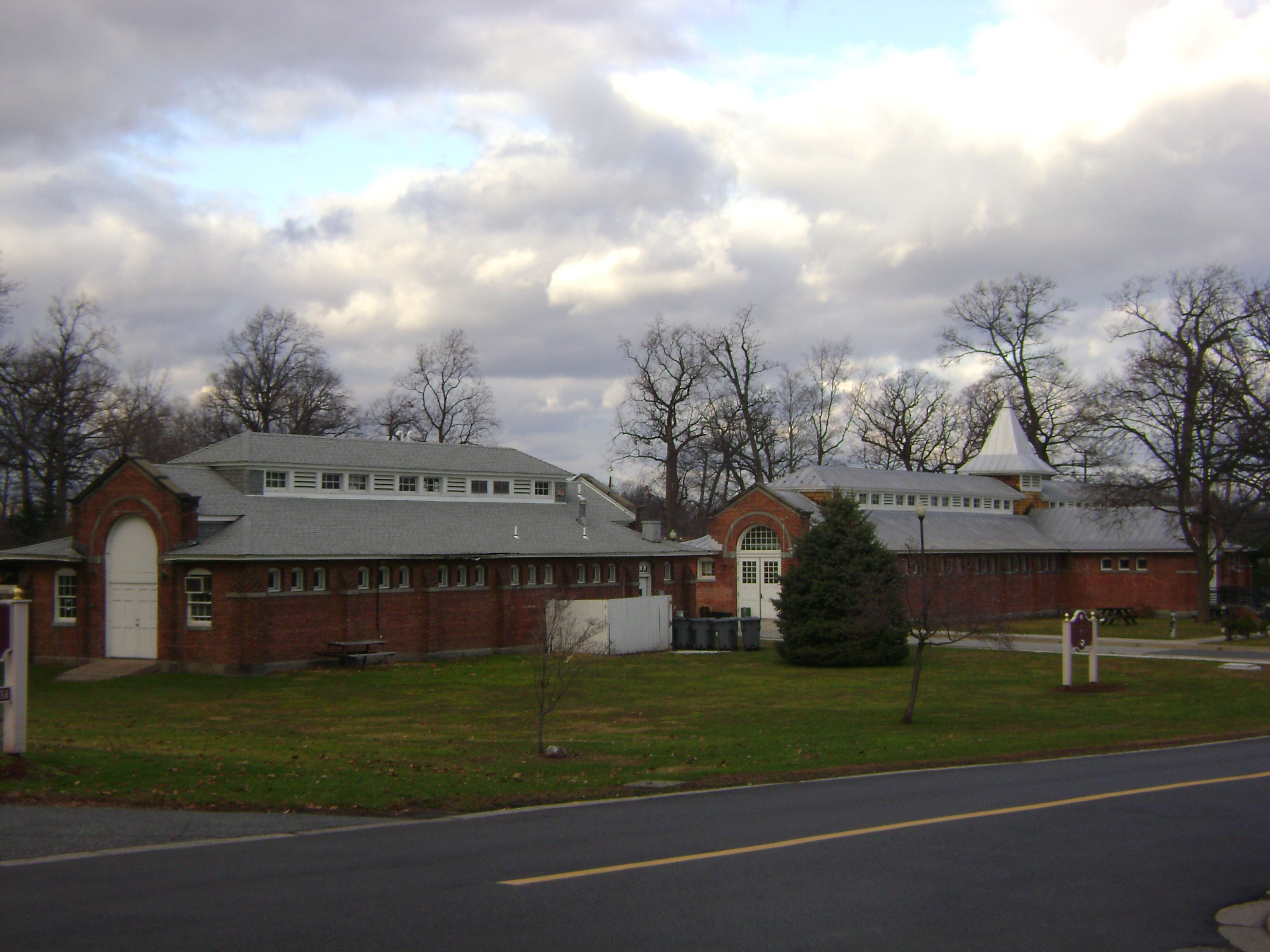 The former U.S. Animal Quarantine Station, a National and State Historic Place located in Clifton, New Jersey. The station, originally built in 1900, is now the Clifton Municipal Complex.